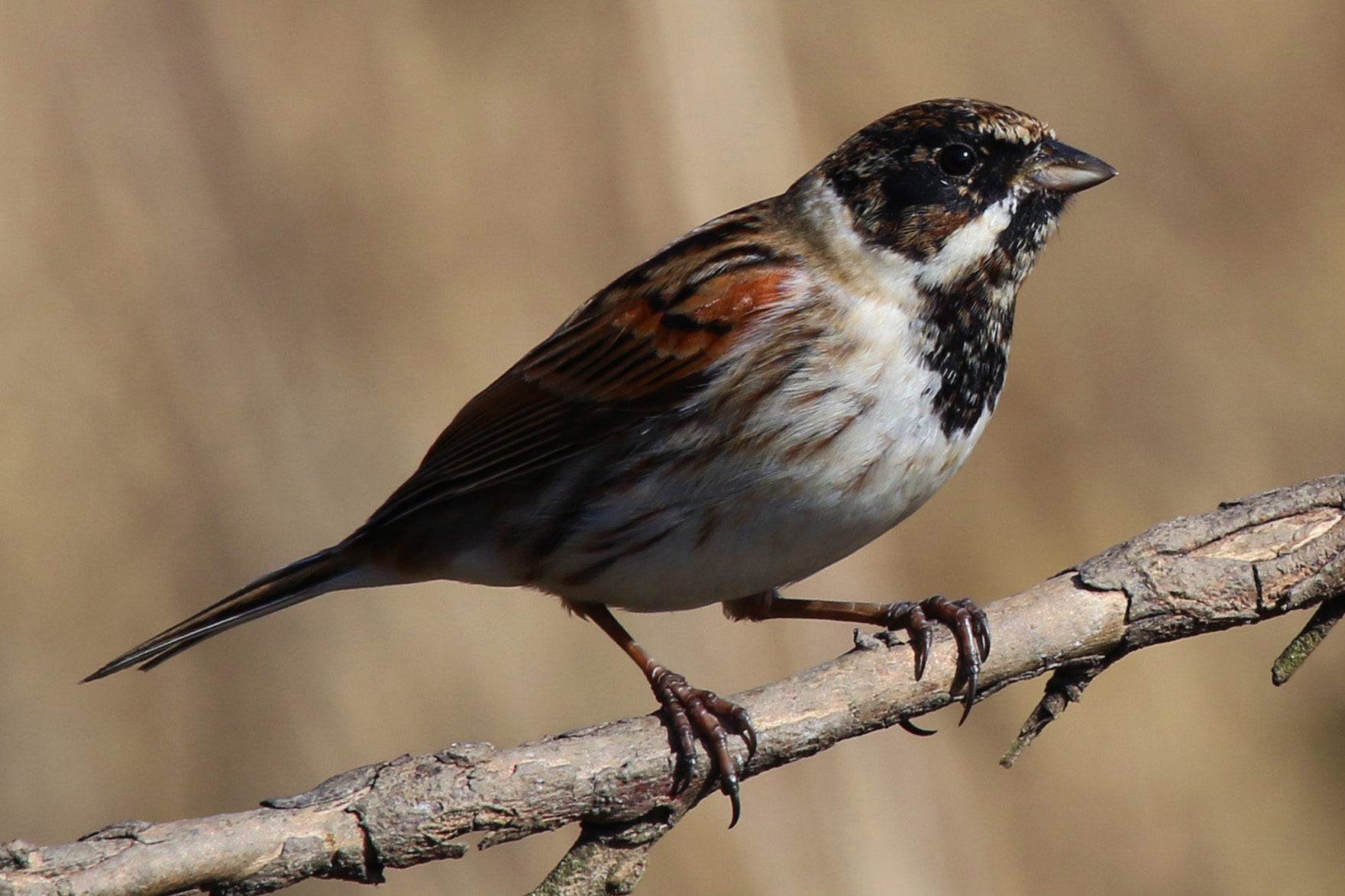 Common reed bunting (Emberiza schoeniclus) - male, in transition from winter to summer plumage, at Otmoor RSPB Reserve, Oxfordshire